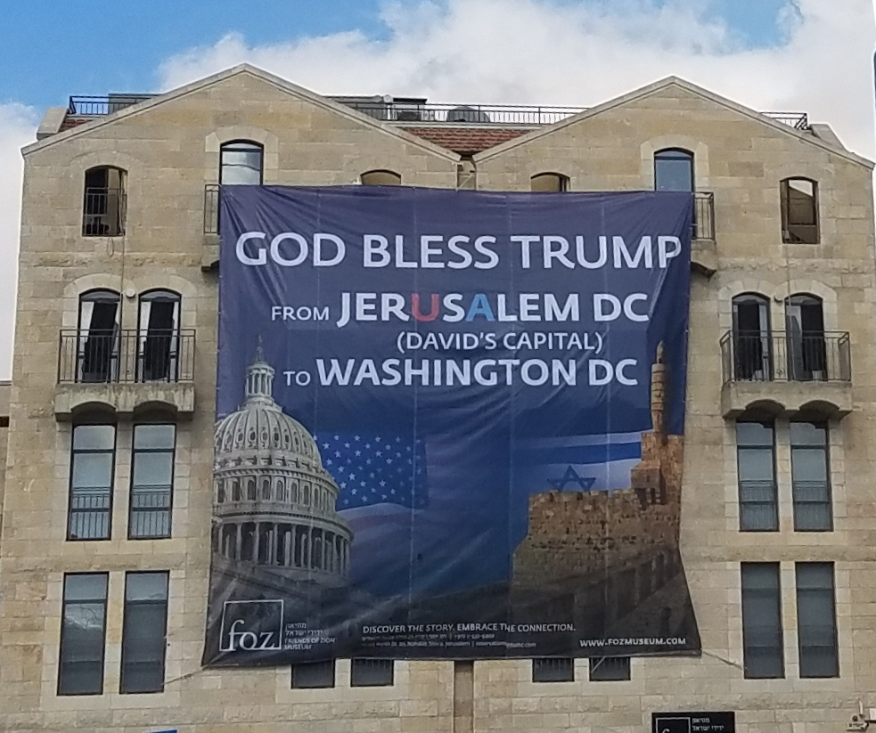 Jerusalem, Nahalat Shiv'a, 20 Yosef Rivlin street.